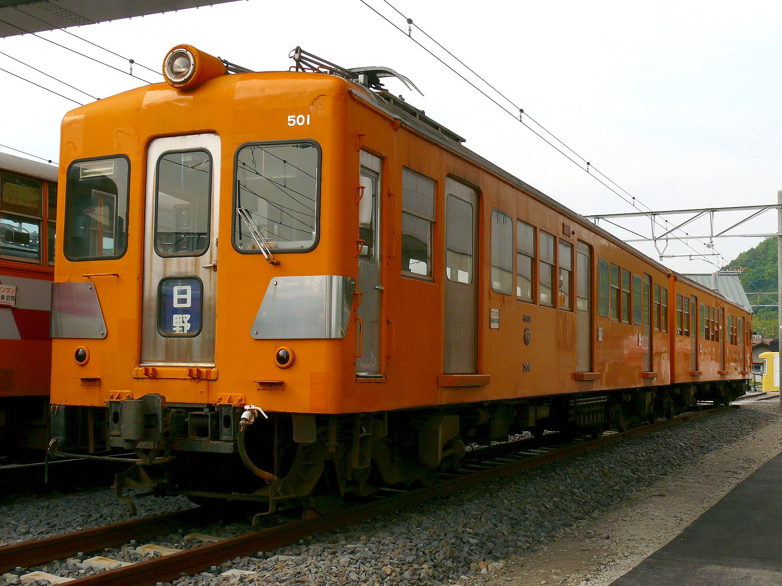 Ohmi Railway Type 500(501+1506)Train(Japan). Taking a picture from Hikone Station in Ohmi-Railway-line. See also Ja:近江鉄道500系電車 for more information(written in Japanese). 近江鉄道500系電車の501+1506の２両編成。 近江鉄道彦根駅構内の近江鉄道ミュージアム会場内にて、撮影。